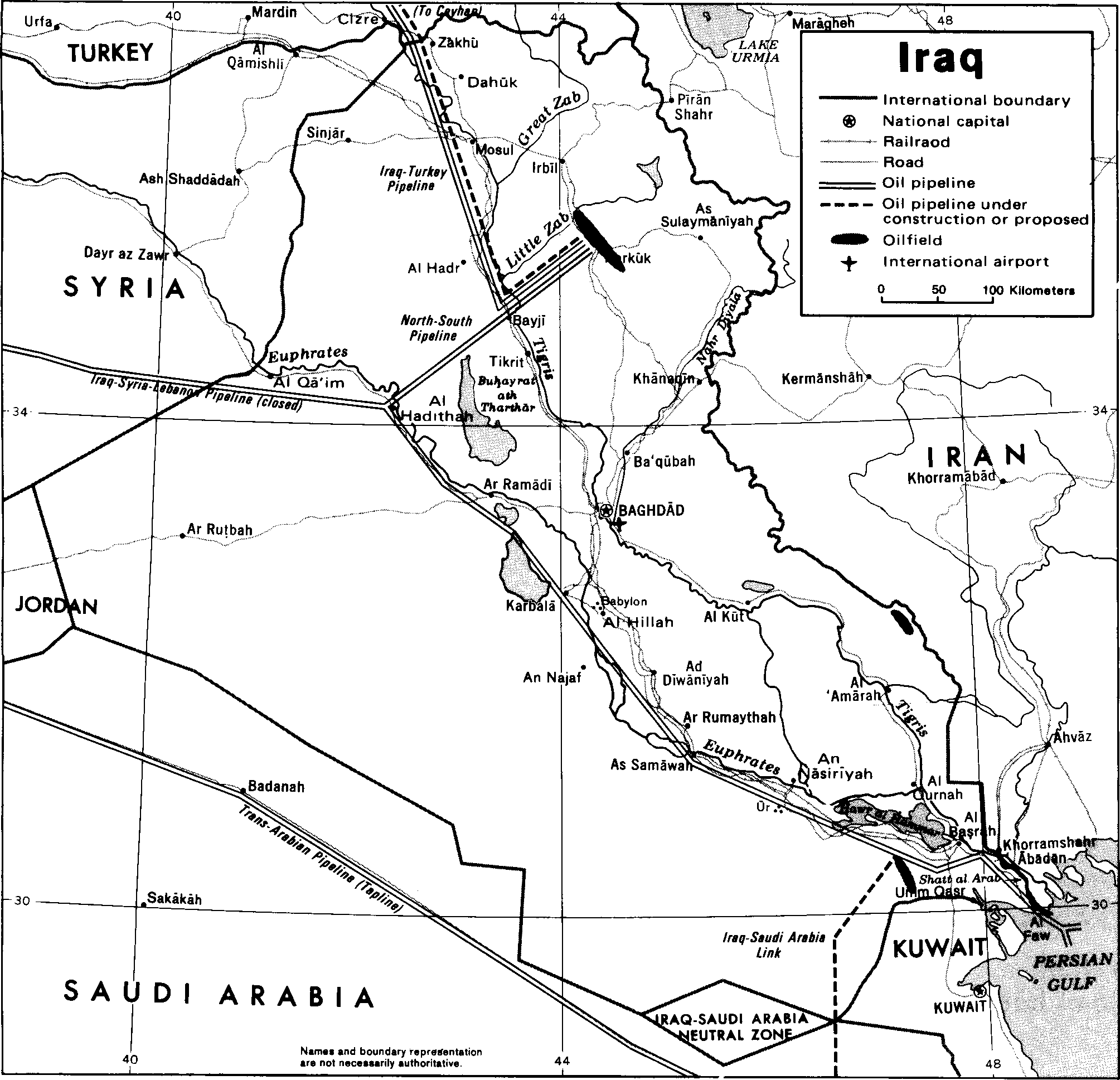 US Government work in the public domain from BACKGROUND NOTES: IRAQ, Author: UNITED STATES DEPARTMENT OF STATE, BUREAU OF PUBLIC AFFAIRS.